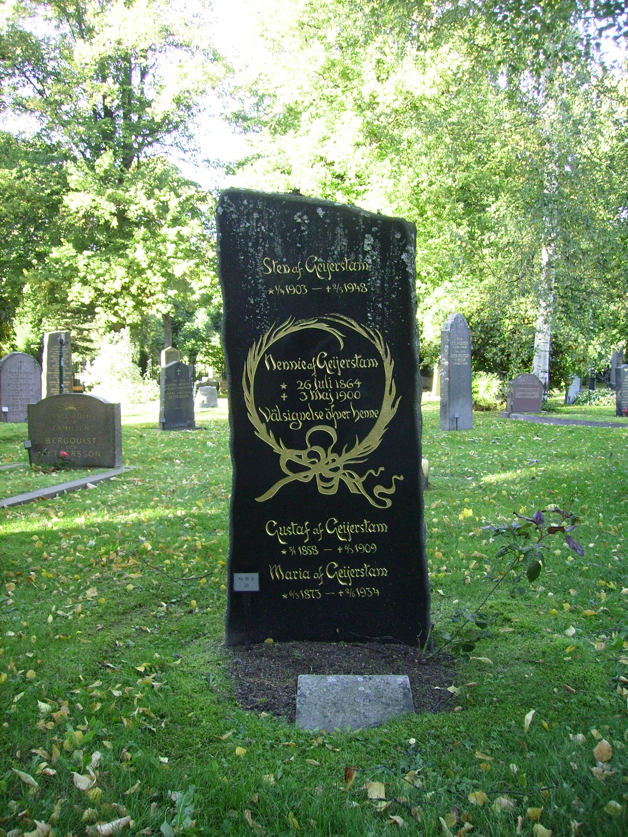 Picture of Gustaf af Geijerstam's grave at Norra begravningsplatsen in Solna